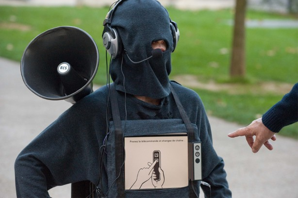 The spiritualist medium is riding a modified wheelchair offering a three minutes “mobile séance” for 1 euro. A slim mobile TV screen is fixed on his chest and coin chute between his legs. As far as 1 euro is being put into the coin slot the introduction instruction manual appears on the screen, offering people to use a TV remote control for choosing any TV channel. Medium is transmitting sounds to the audience he is receiving from TV set into his headphones. As far as three minutes are over the machine is asking to put another coin.